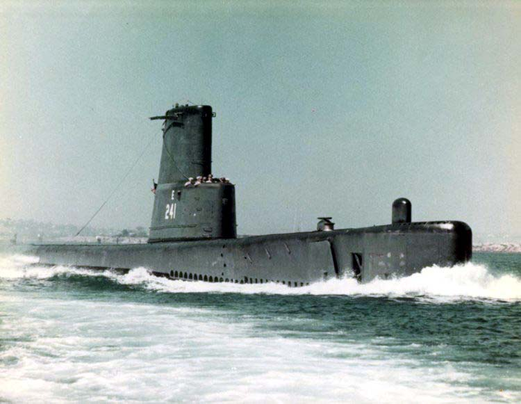 USS Bashaw (SSK-241), underway, date and place unknown.